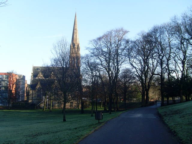 Church by Queen's Park On Balvicar Street, to the north of the park. Wikidata has entry Q17578059 with data related to this item.